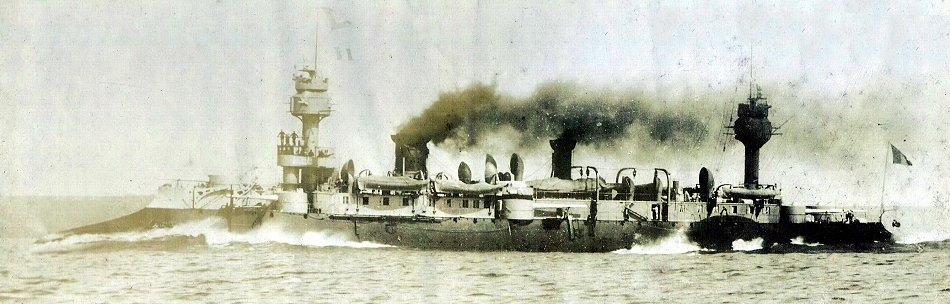 French armoured cruiser Dupuy de Lôme